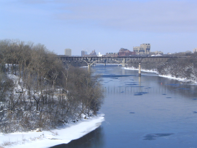 The Mississippi River as seen from the Lake Street bridge between Minneapolis and St. Paul, Minnesota, United States, looking north. March 4, 2007.